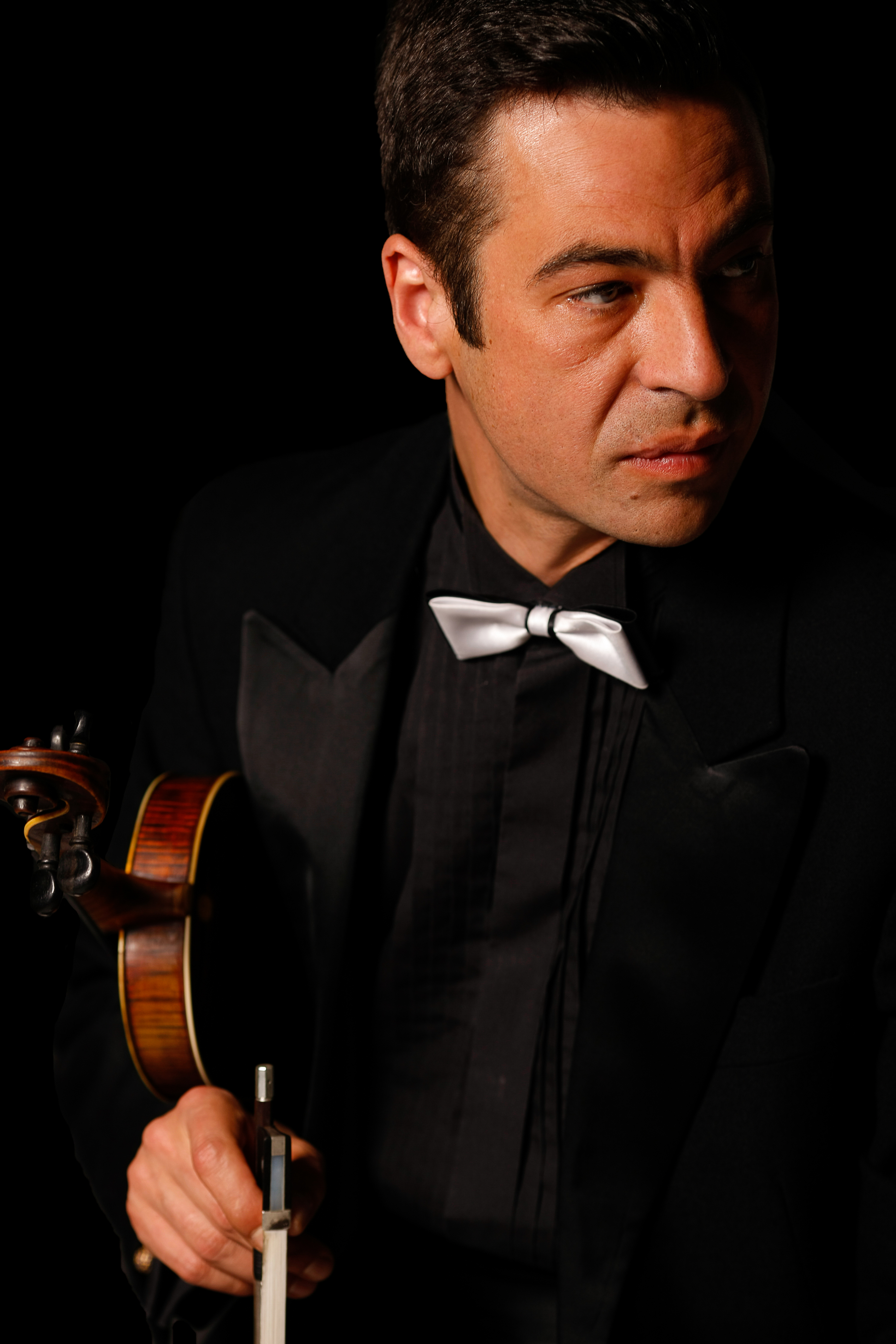 Portrait of Martynas Švėgžda von Bekker